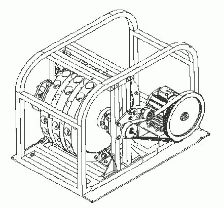 Perendev Magnet Motor